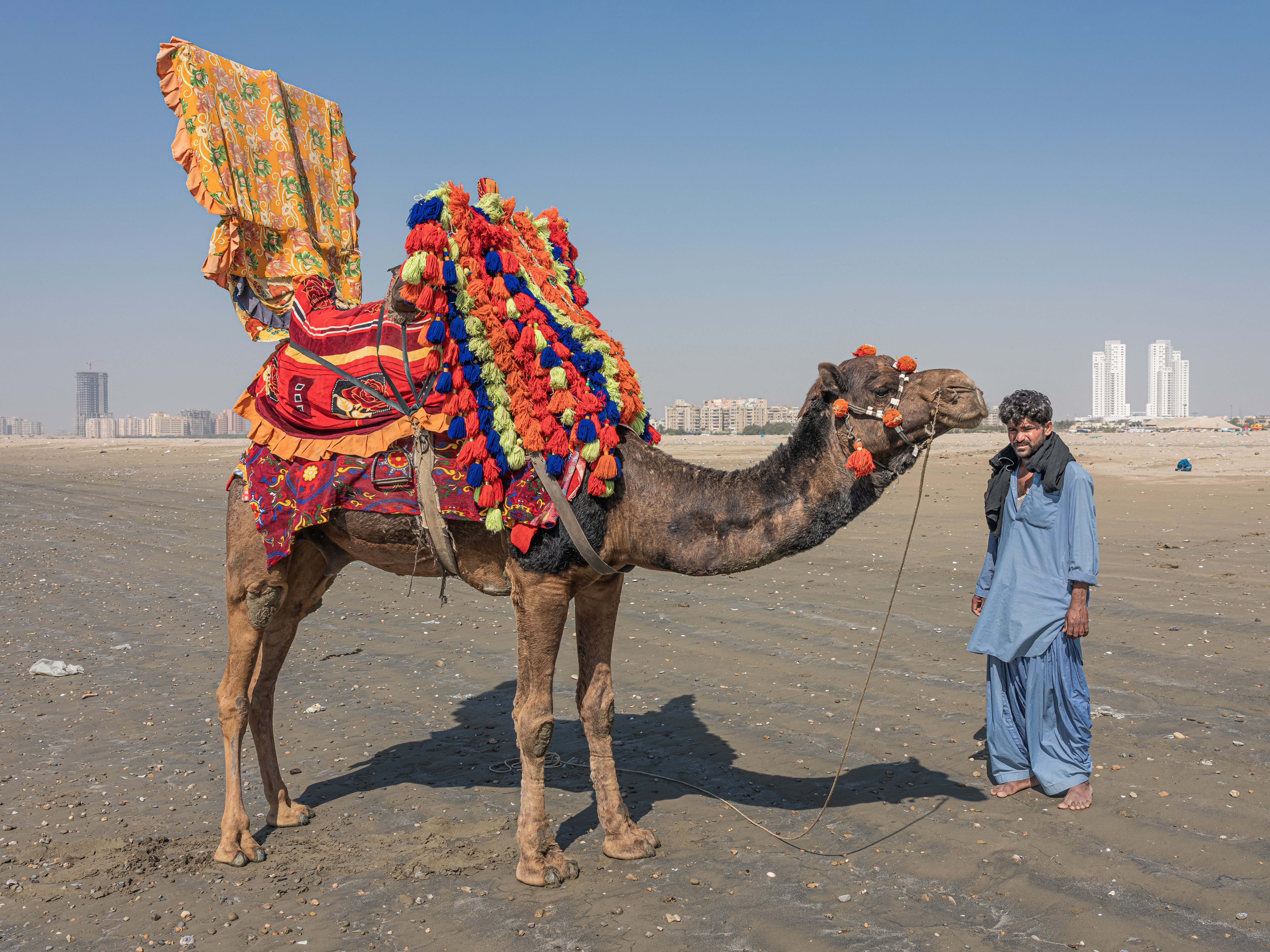 A man with camel at Clifton Beach in Karachi, Pakistan